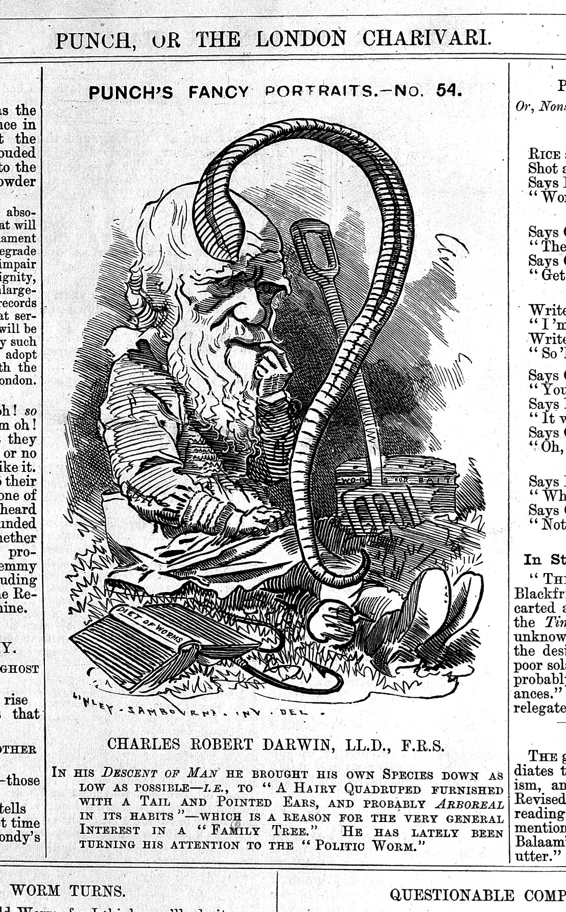 Caricature, Charles Darwin with earth worm. Punch's Fancy Portraits - No 54 Darwin Online description: Sambourne, L. 1881. Punch's fancy portraits. - No. 54: Charles Robert Darwin. Punch (22 October): 190 General Collections Keywords: SATIRE; Charles Robert Darwin